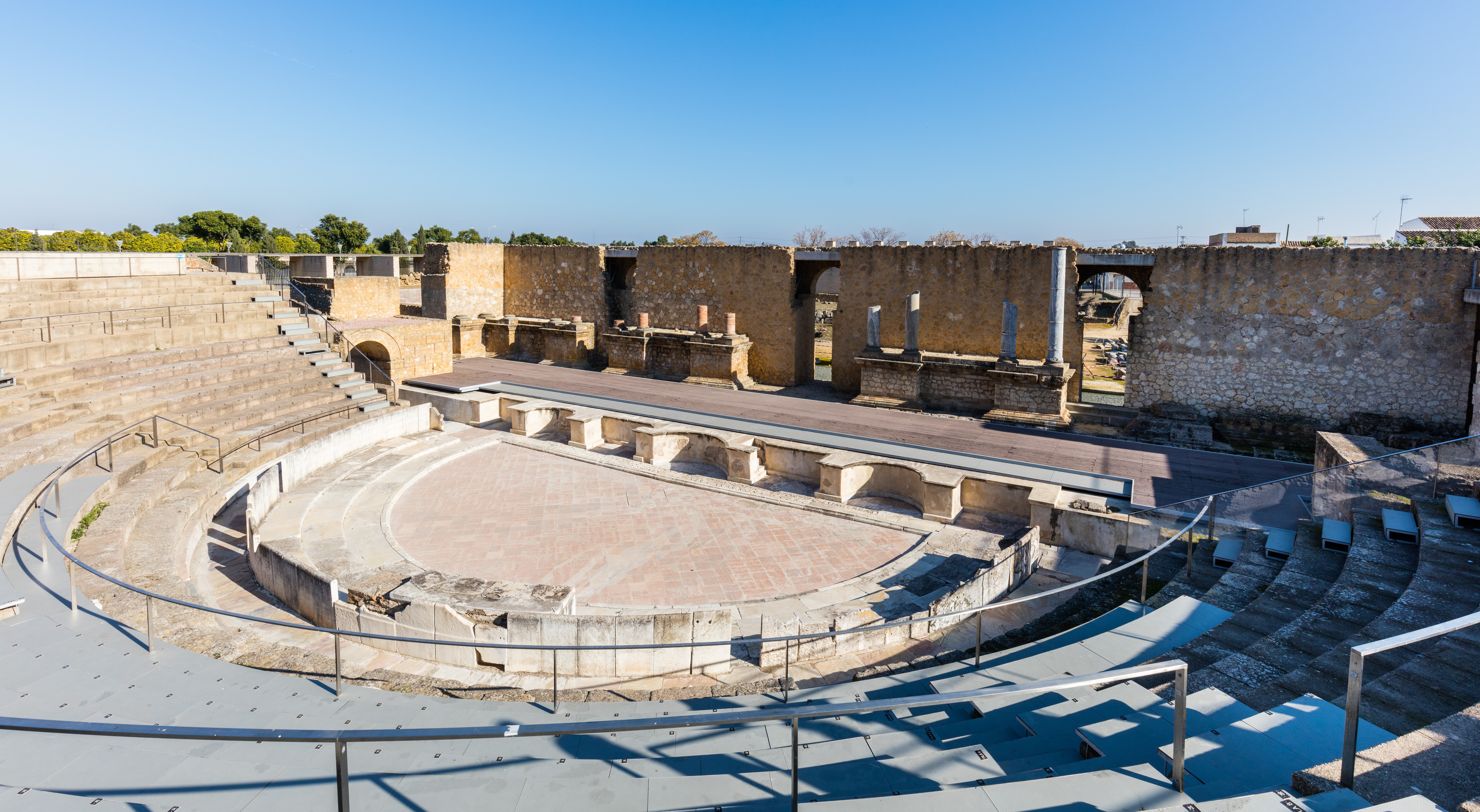 Ancient Roman theatre in Itálica, Santiponce, Seville, Spain